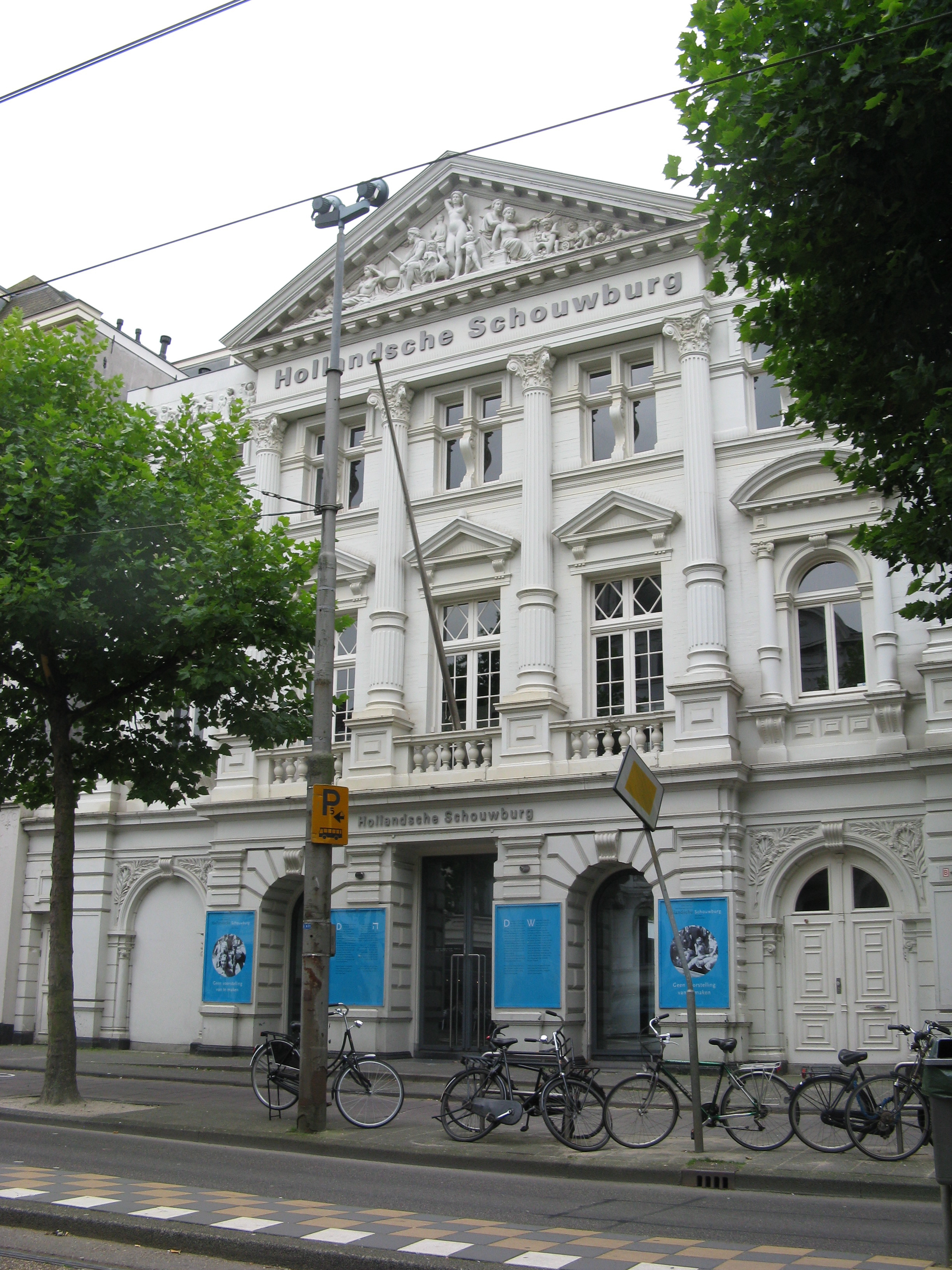 Hollandsche Schouwburg.